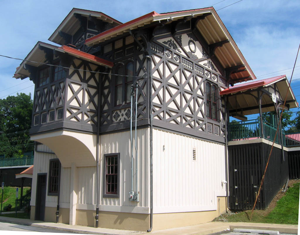 Photo of Strafford train station in Strafford, Pennsylvania.